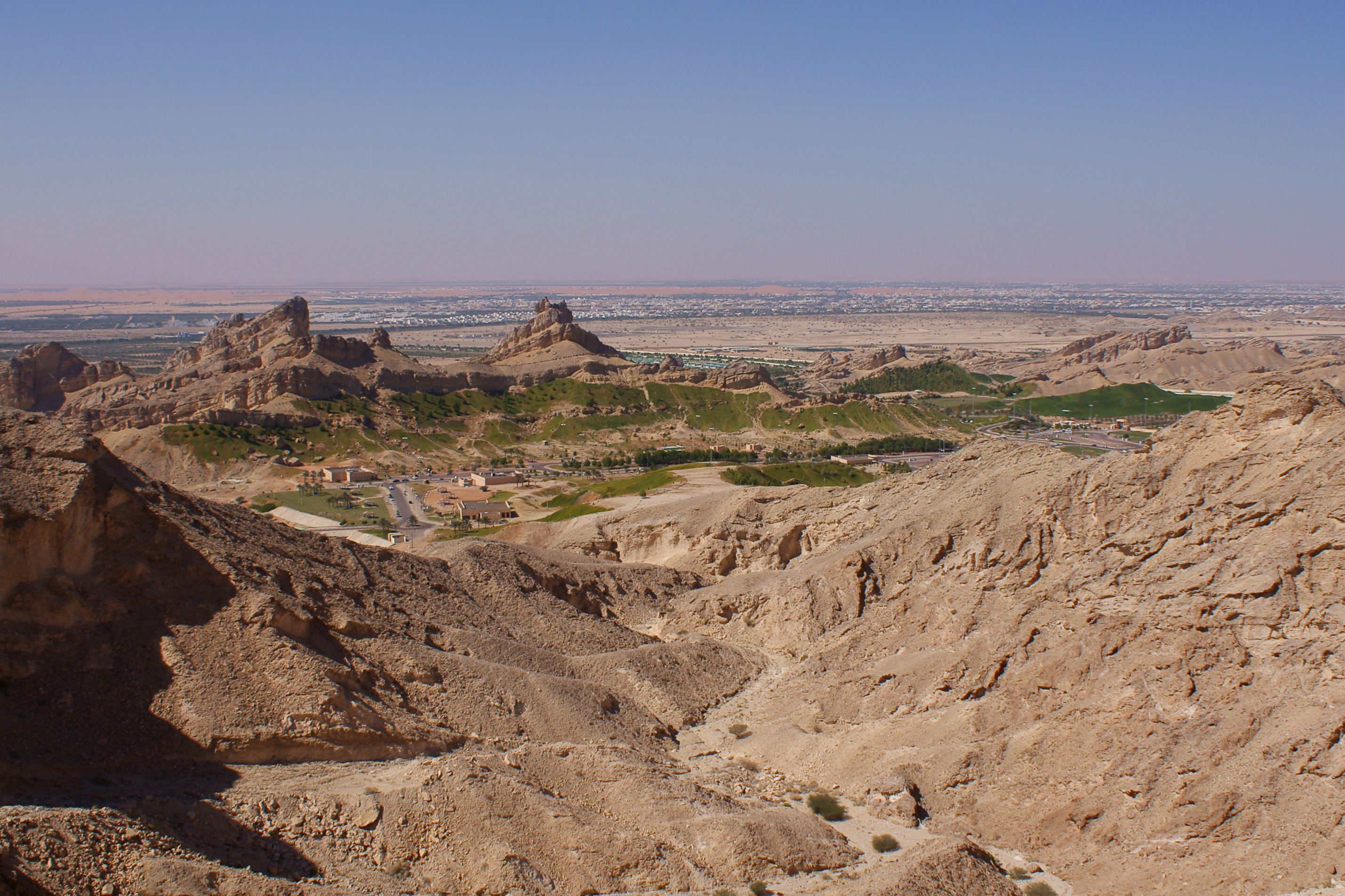 Oasis of Green Mubazzarah near Al Ain